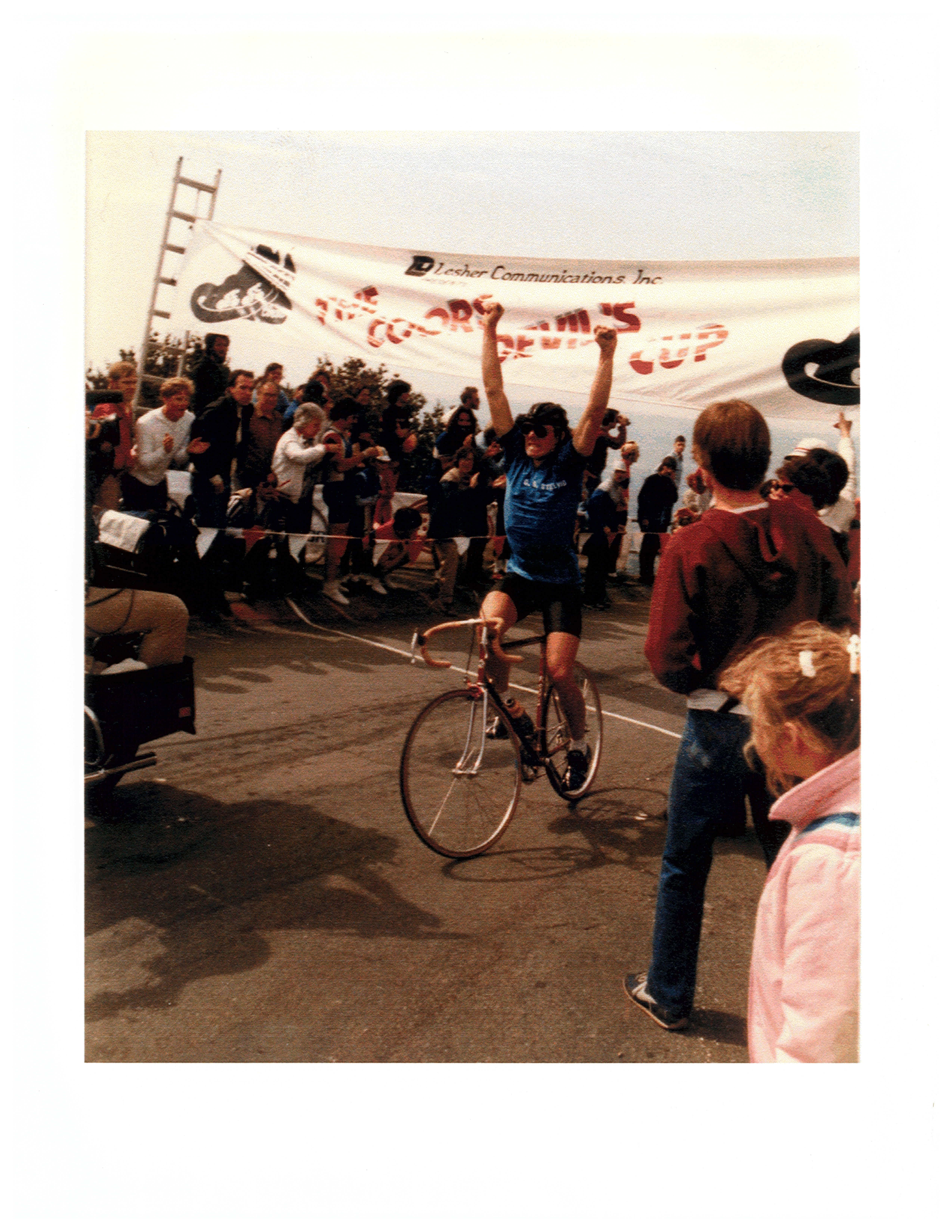 photo of Bob Roll winning stage of Coors Devils Cup 1983 (Mt Diablo, Walnut Creek CA)